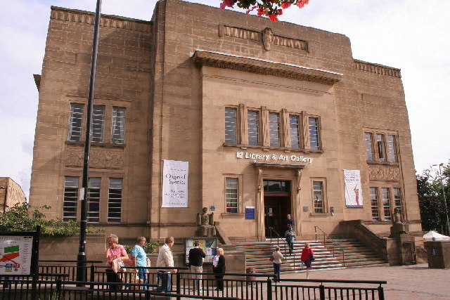 Huddersfield Library and Art Gallery. Looking NE.